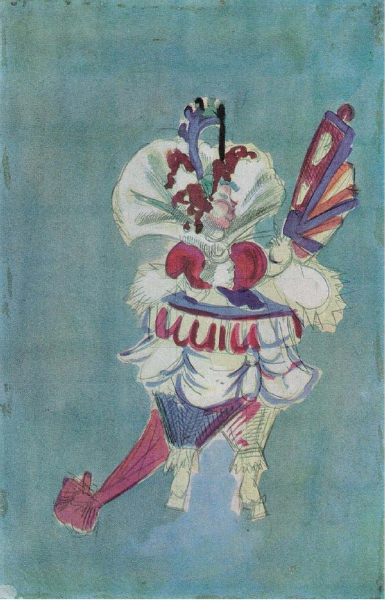 The Costume Design Aurora for the play “Giroflé-Girofla”. Kamerny Theatre. Moscow. 1922 The sketch is located in the Bakhrushin Museum in Moscow, Russia.